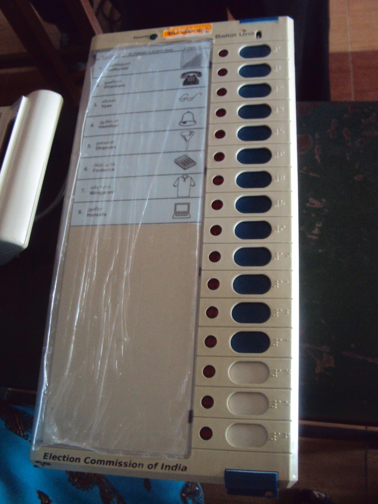 Indian Electronic Voting Machine's Ballot Unit.